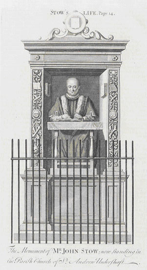 The John Stow monument in the parish church of St. Andrew Undershaft